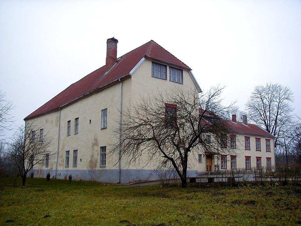 Mazstraupe Manor